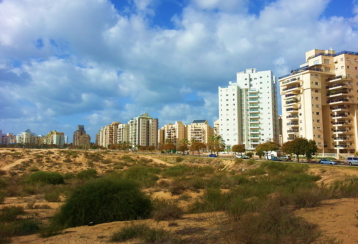 HOLON CITY